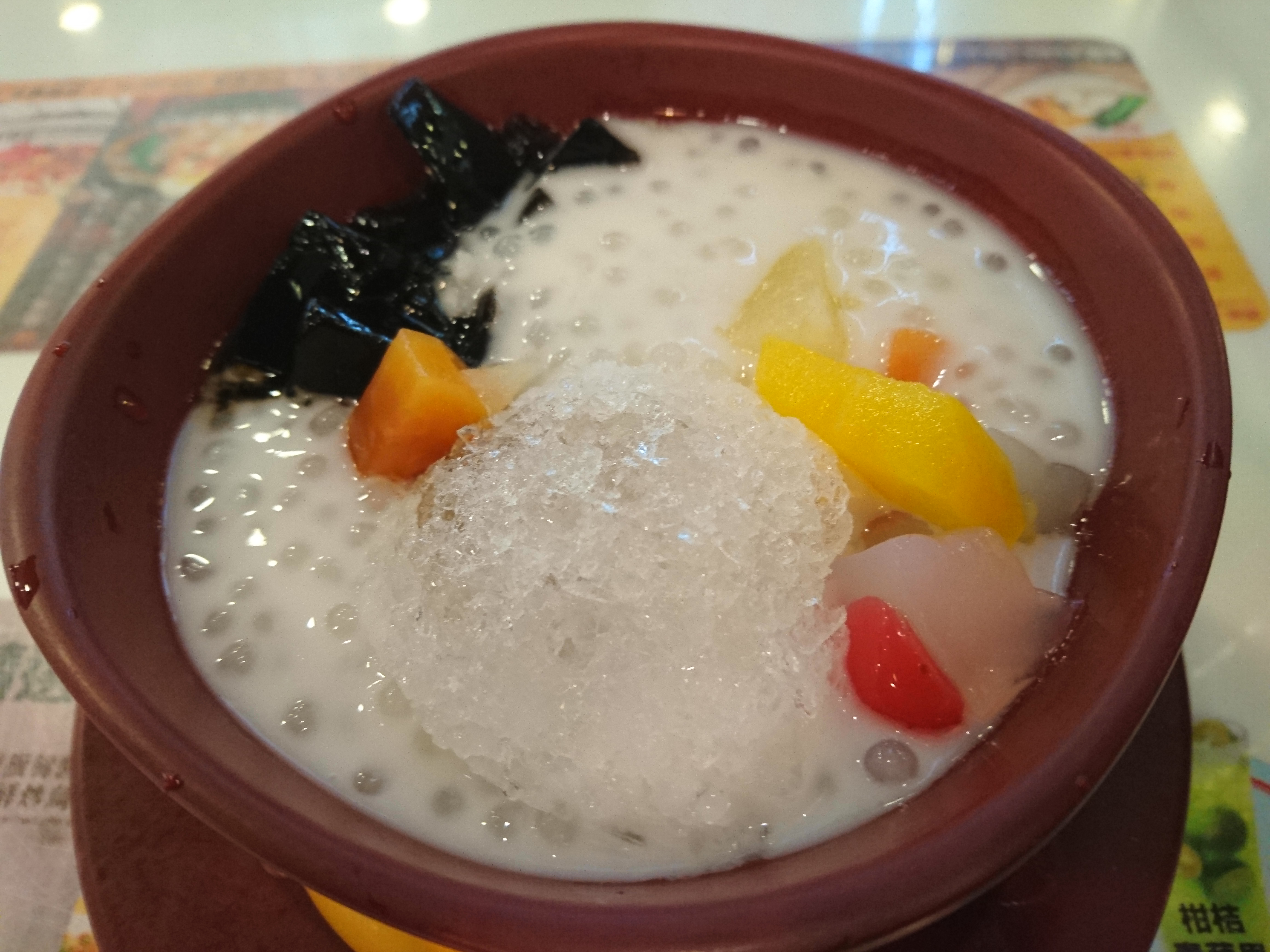 Sago Soup with Assorted Fruits & Glass Jelly